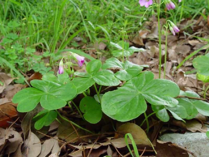 Description Oxalis rubra, Hairywood Sorrel. Date June 08, 2002 Location Gardens of the Imperial Palace, Tokyo - Japan Photographer Franco Folini